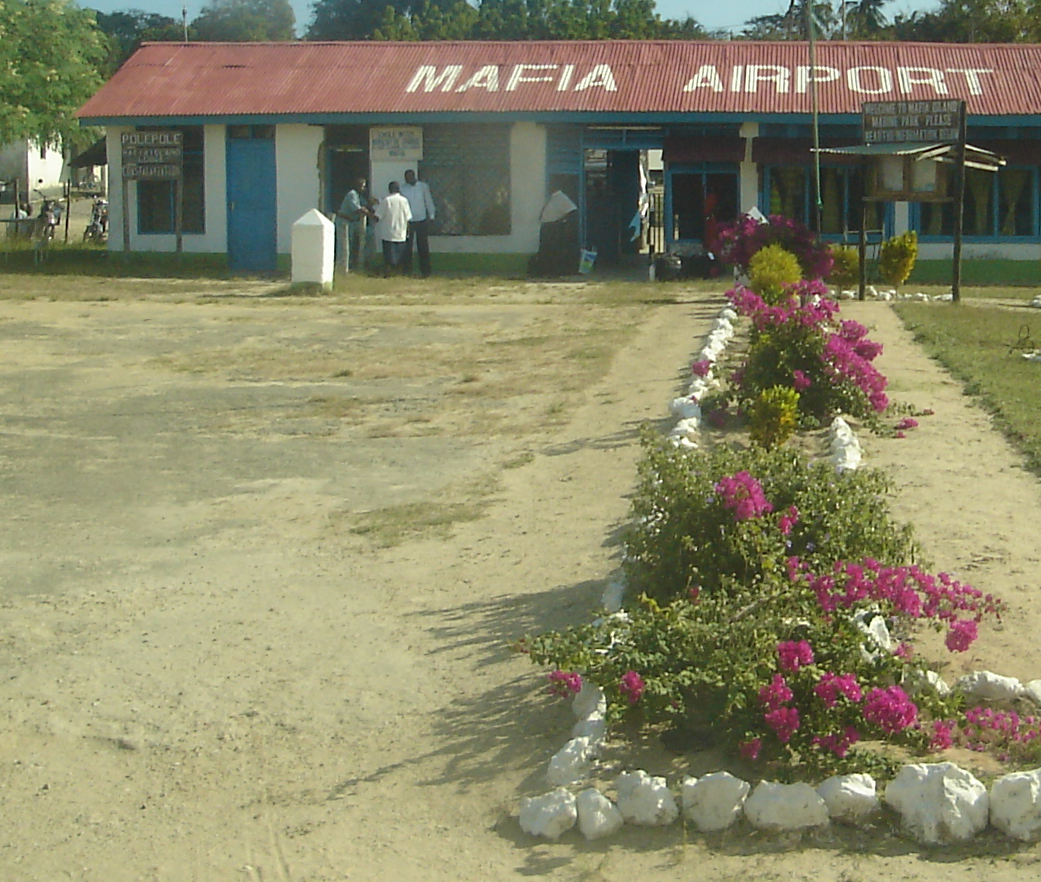 Mafia Airport, Mafia Island, Tanzania